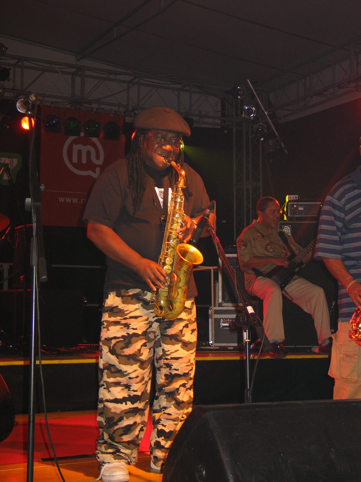 Lester »Ska« Sterling of The Skatalites at the Njoki Summer Festival, Ajdovščina, Slovenia. Val Douglas on bass guitar in the background.